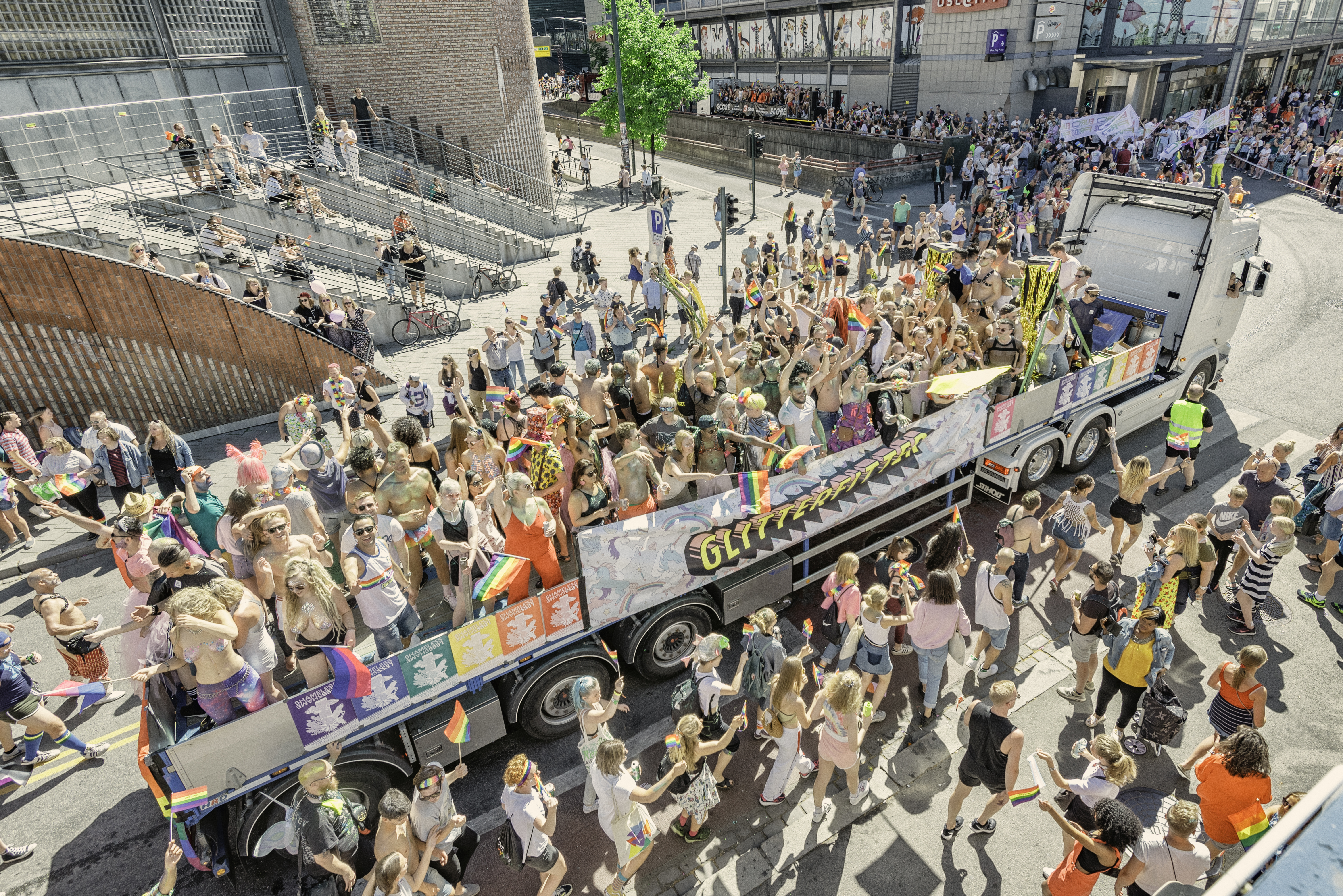 Oslo Pride ParadeLocation: Oslo NorwayEvent type: Oslo Pride ParadeDate or year: 2018